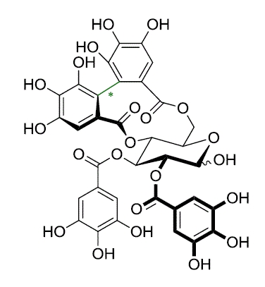 lactona